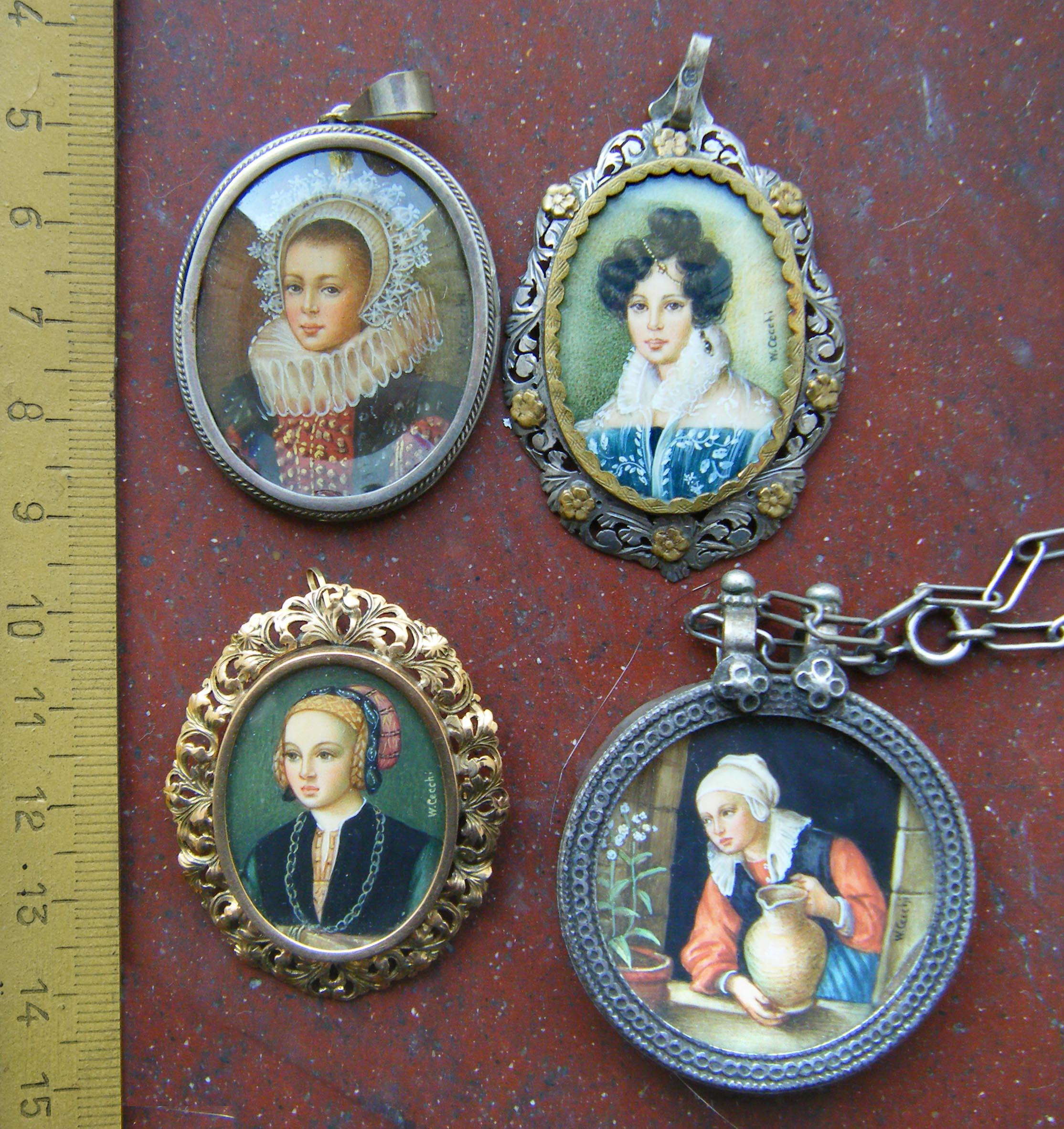 miniature3